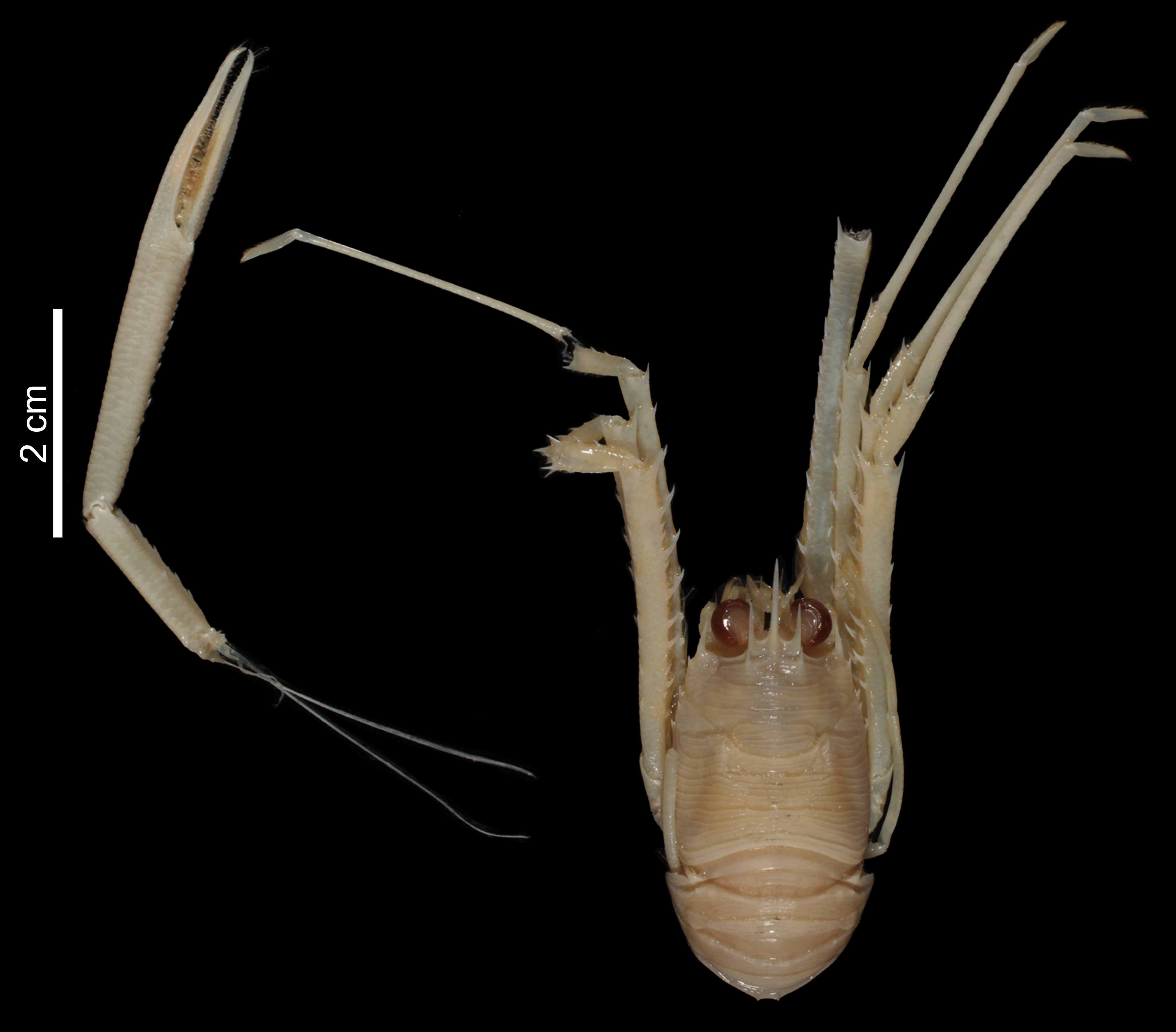 PRESERVED_SPECIMEN; Munida sphecia Macpherson, 1994 ; Type status: HOLOTYPE; Identified by: Macpherson E.; Individual Count: 1 ; Event date: 1985-09-28T00:00:00Z